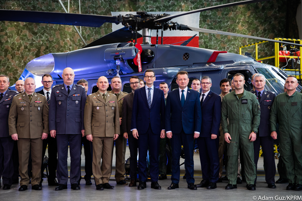 2019.01.25 Mielec. Polish Prime Minister Mateusz Morawiecki took part in the ceremony of signing the contract for the supply of S-70i Black Hawk helicopters for the Polish Army.